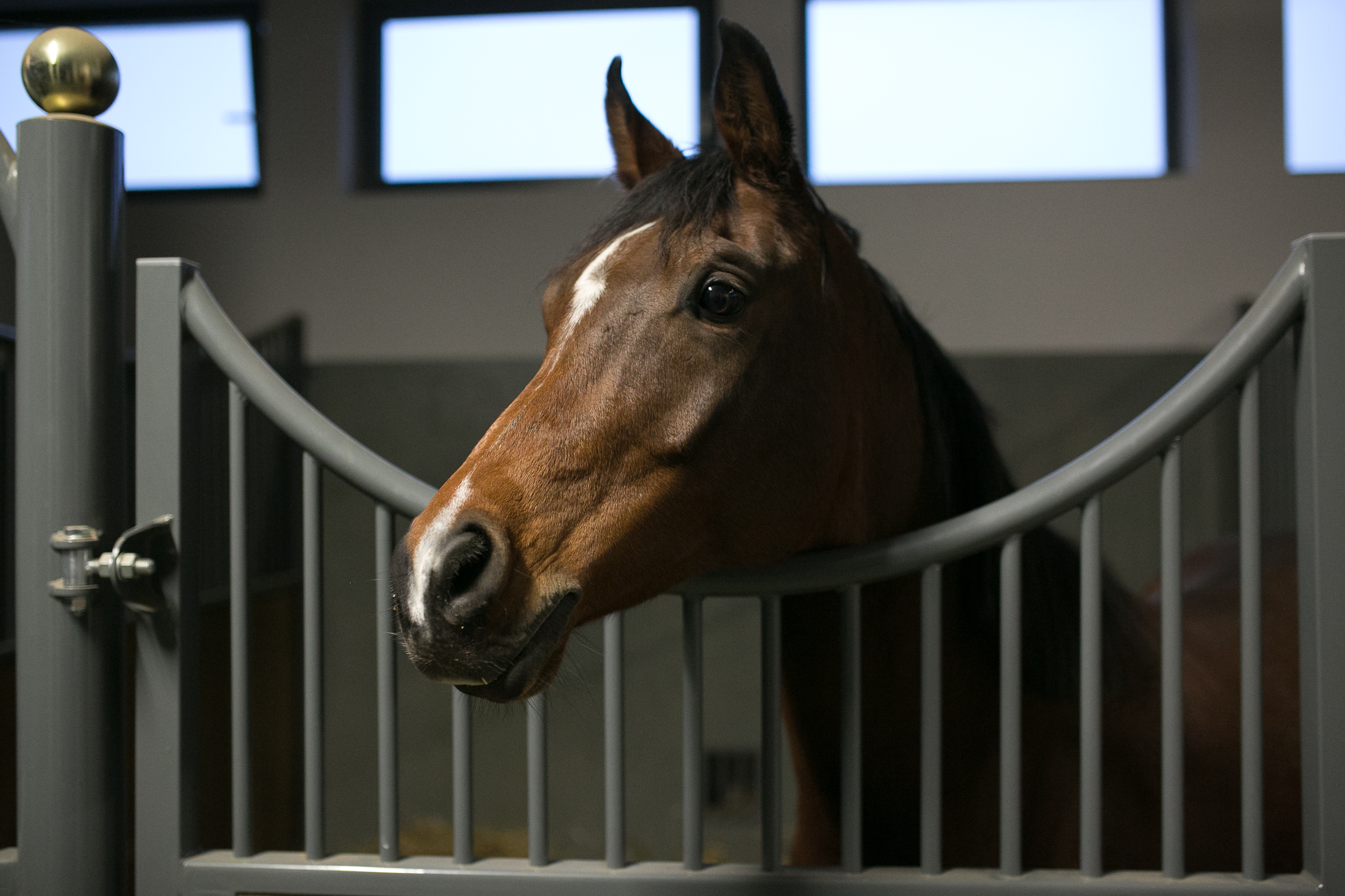 Stajnia w CSK Odporyszów